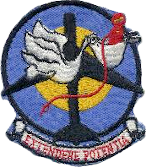 Emblem of the 308th Air Refueling Squadron